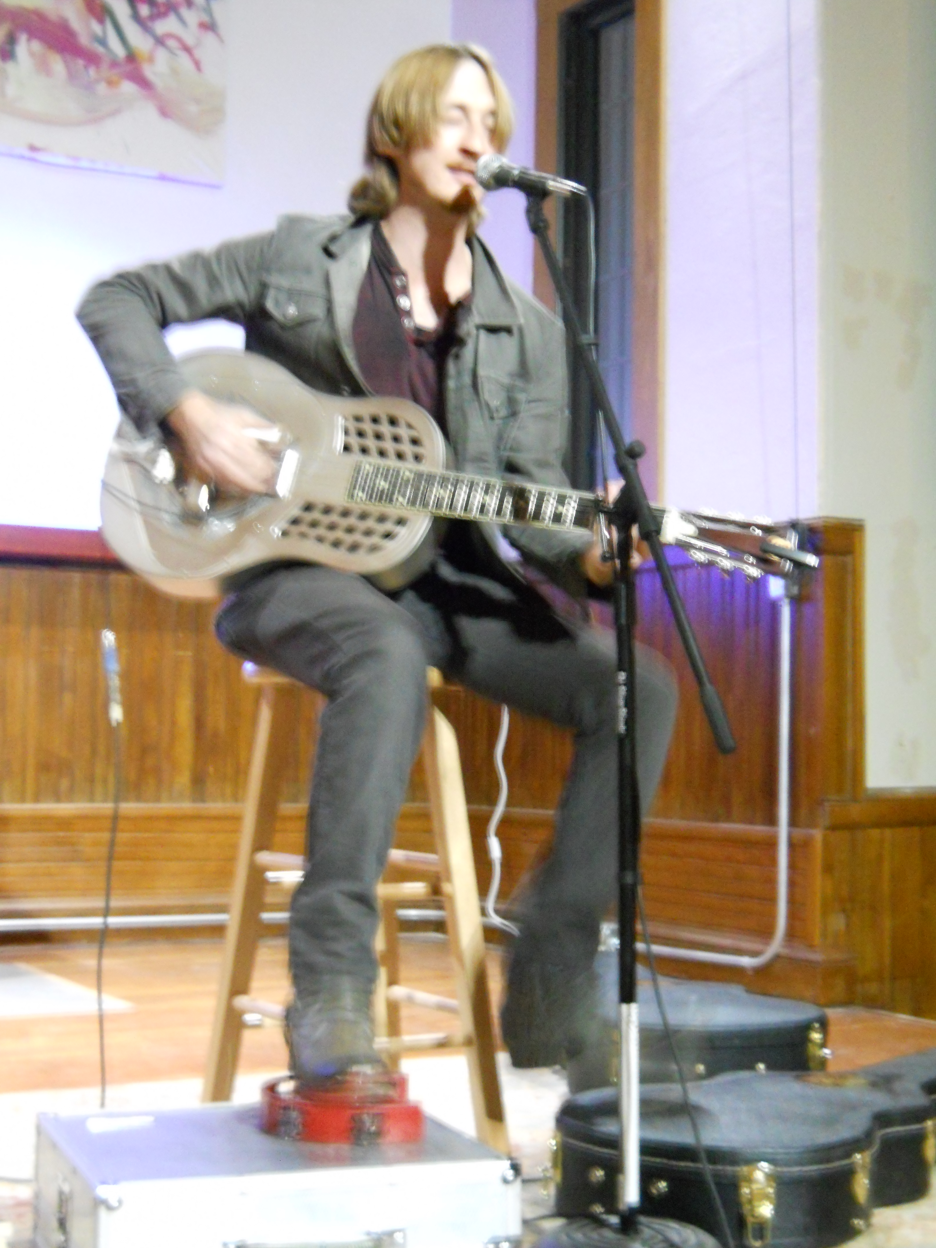 Virginia blues musician Eli Cook performs at 42 Maple Contemporary Arts Center in Bethlehem, New Hampshire.